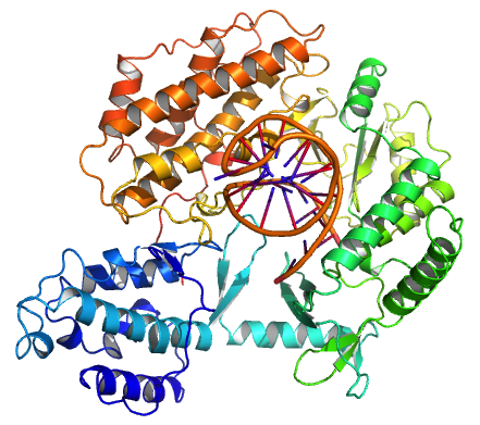 Tribolium castaneum telomerase catalytic subunit, TERT, bound to an RNA-DNA hairpin designed to resemble the putative RNA-templating region and telomeric DNA